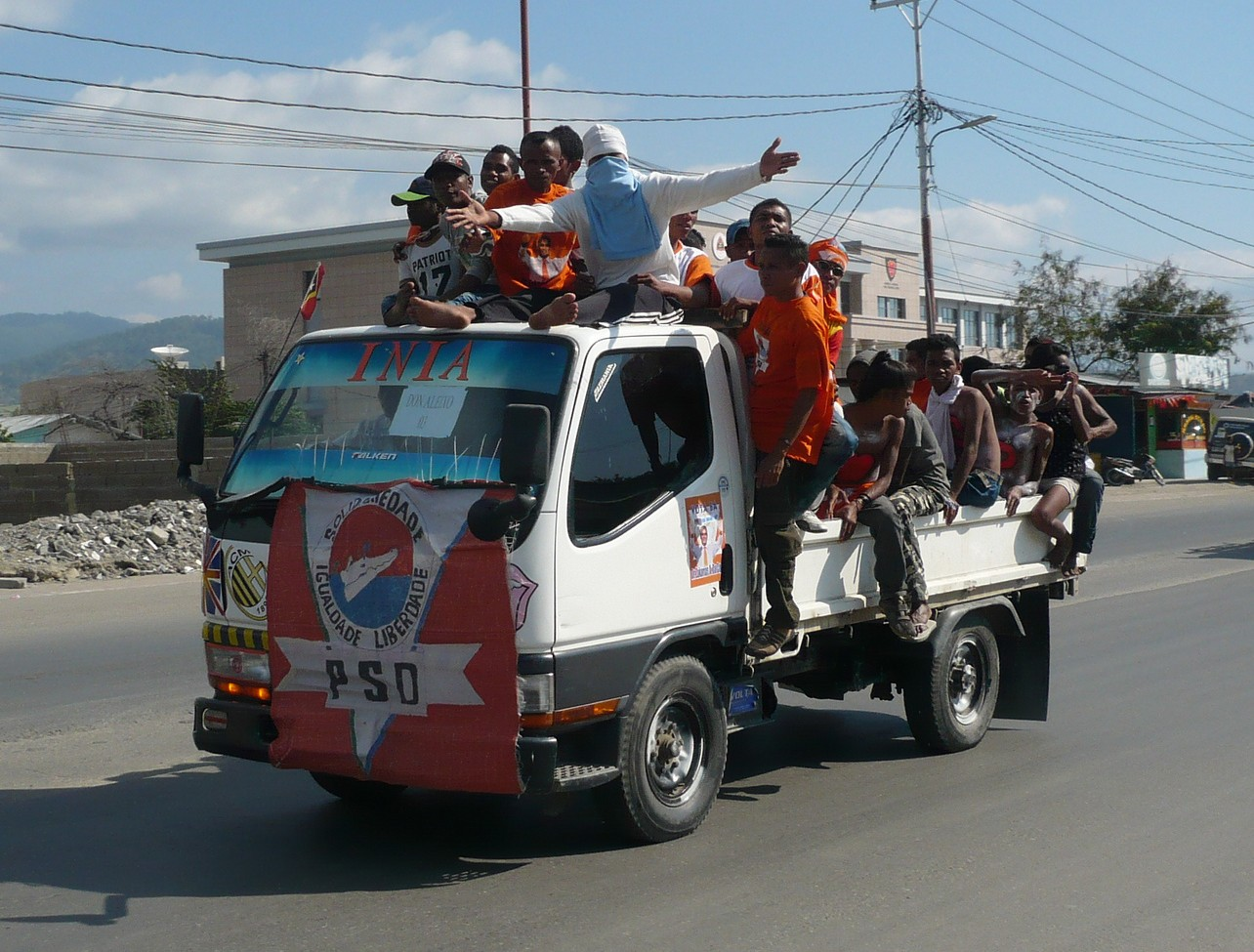 Timor-Leste political campaign: Campaign of a political party (PSD) in Dili, July 2012